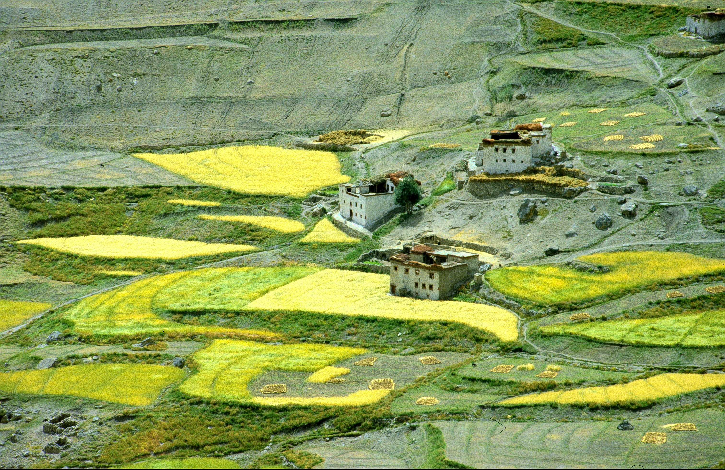 Lingshed village, a house and farming, Zanskar/Ladakh.